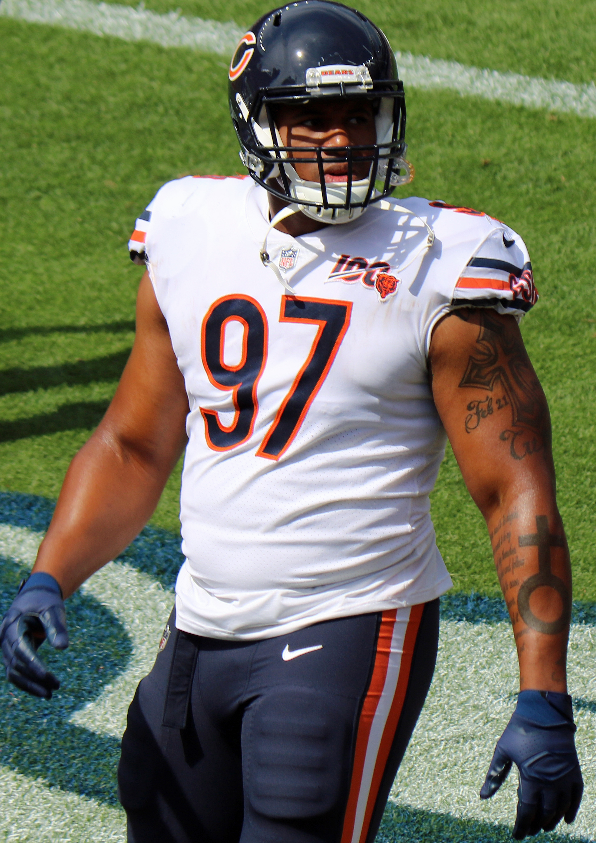 Nick Williams, a National Football League player.